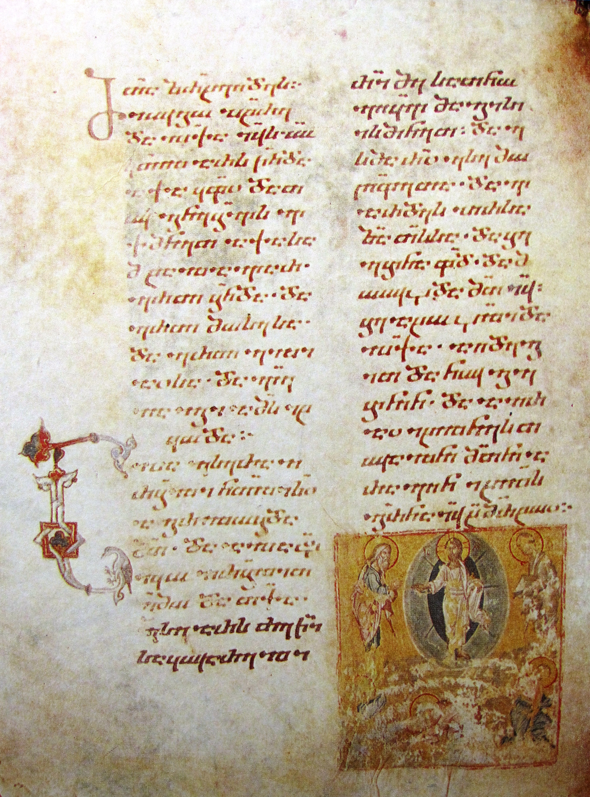 "The Transfiguration", a miniature from the Mokvi Gospels, MSS Q-902, 59v. National Center of Manuscripts, Tbilisi, Georgia